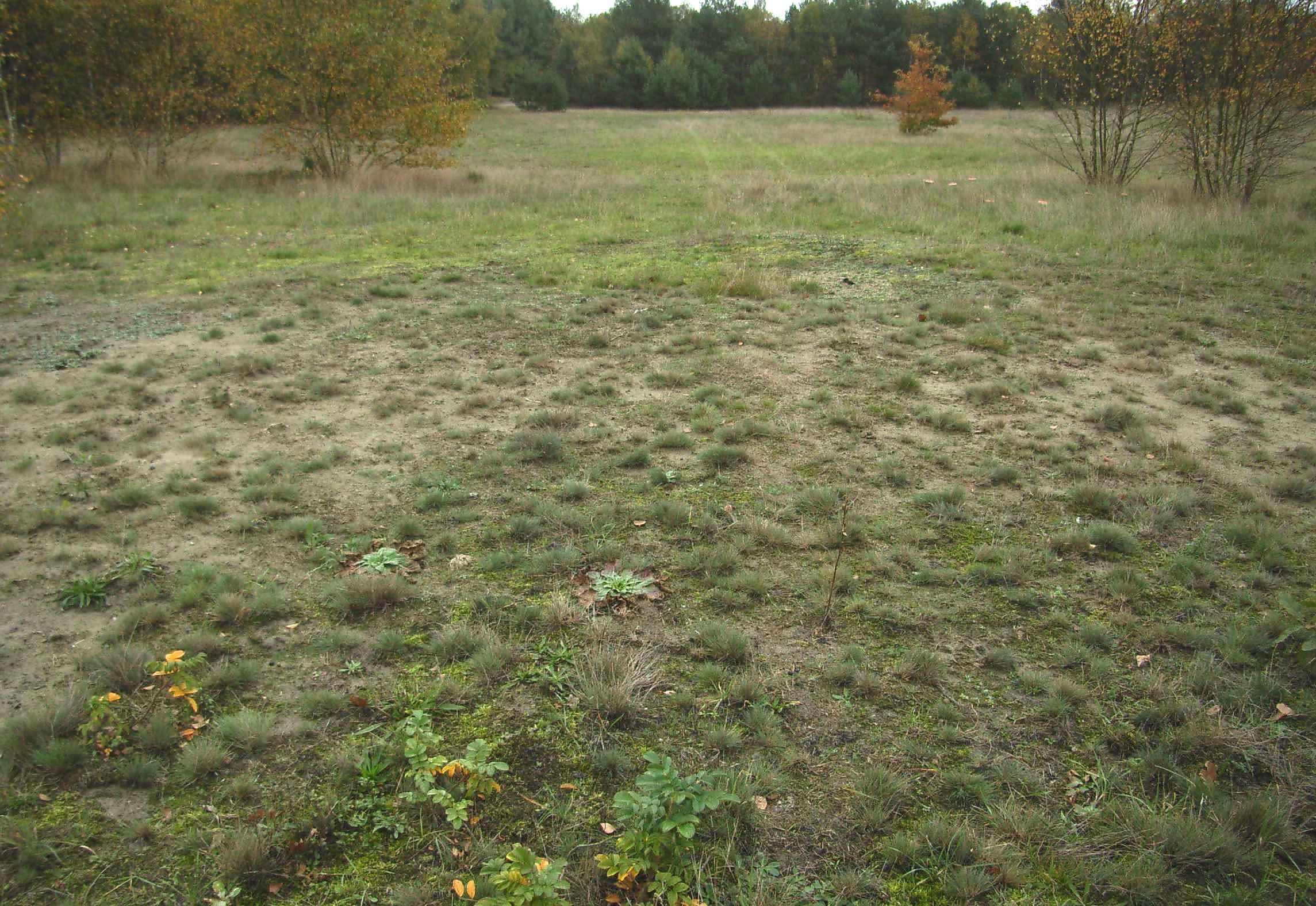 Silbergras (Corynephorus canescens); Sandtrockenrasen